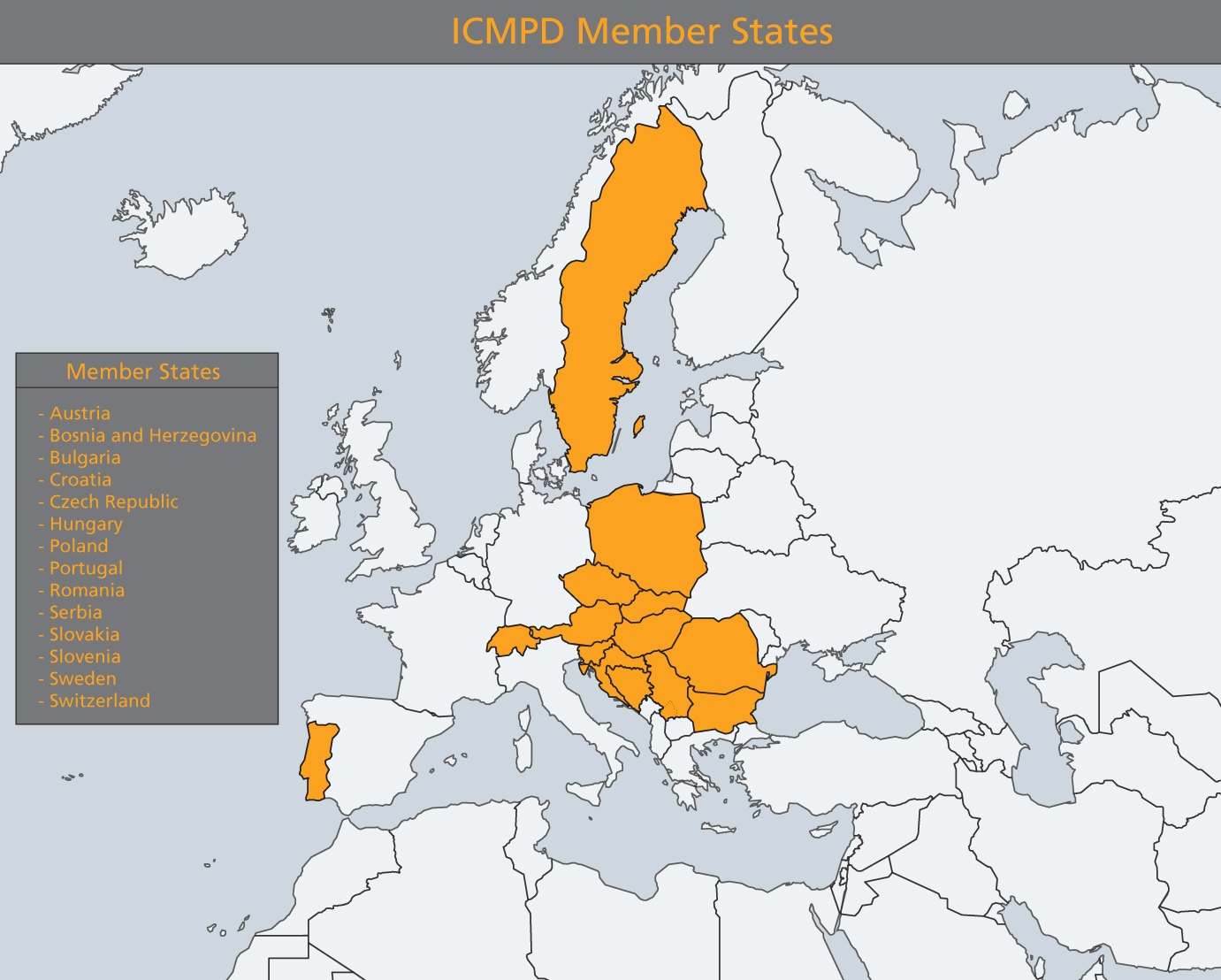 ICMPD Member States